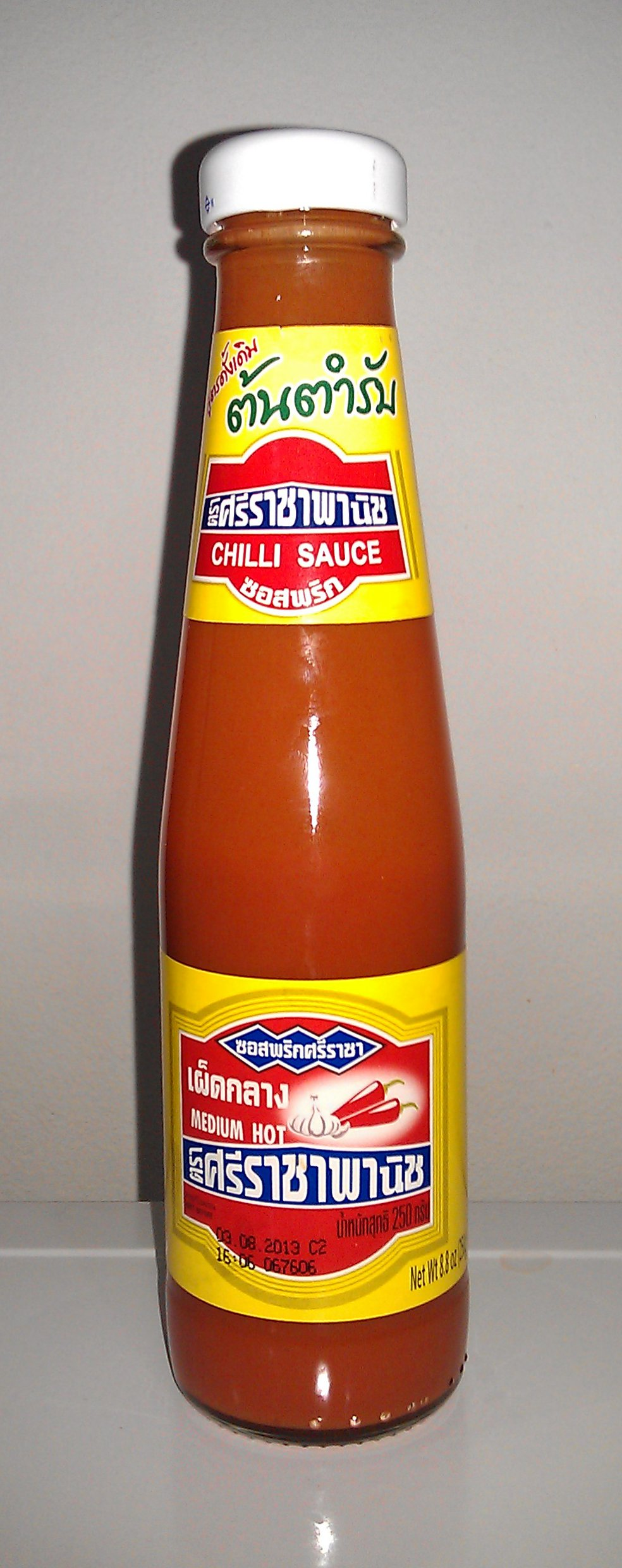 A bottle of Sriraja Panich medium hot red chilli sauce, manufactured by Thai Theparos Food Products PCL.